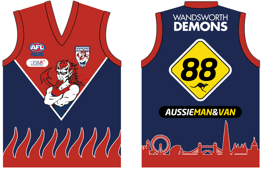 Jumper design for the Wandsworth Demons.